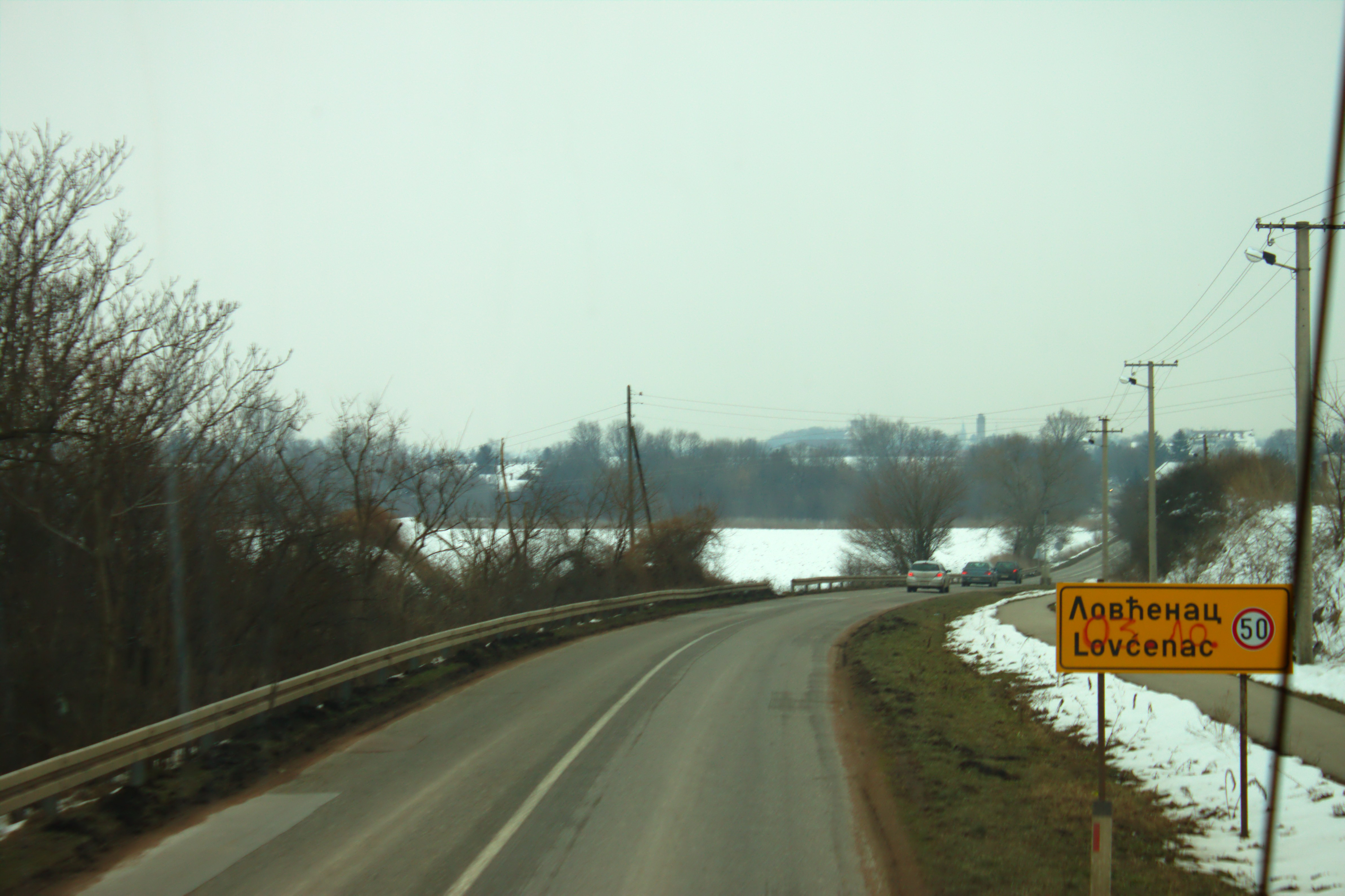 Arriving to the town of Lovćenac from Bačka Topola, Vojvodina, Serbia